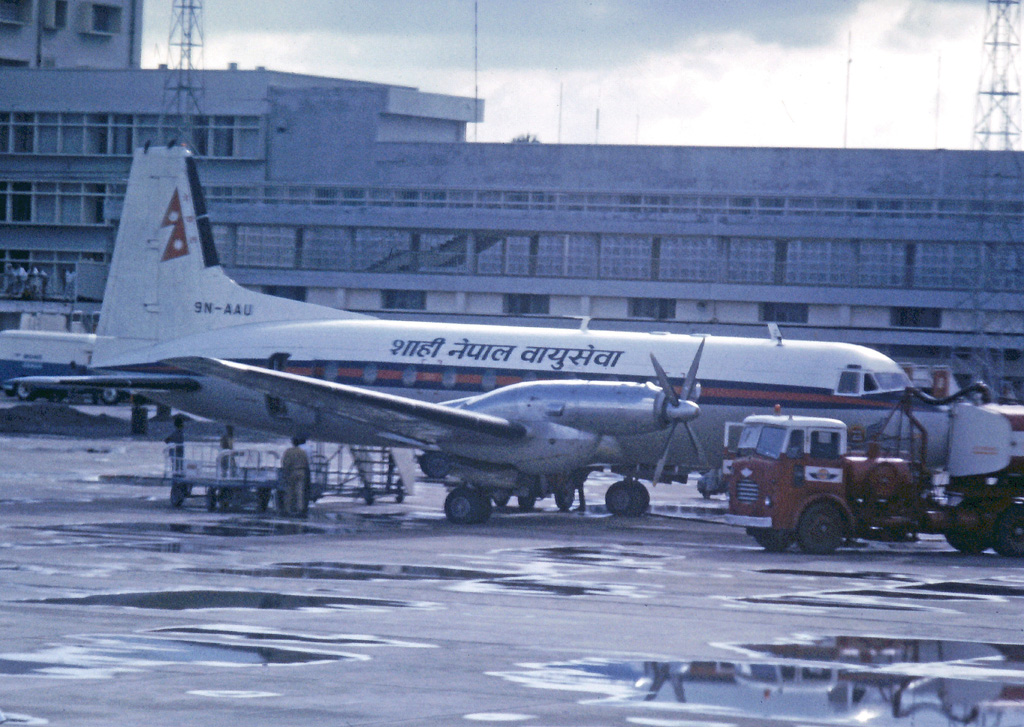 Hawker Siddeley HS.748 9N-AAU of Royal Nepal Airlines at Calcutta/Kolkata Dum Dum Airport in 1974